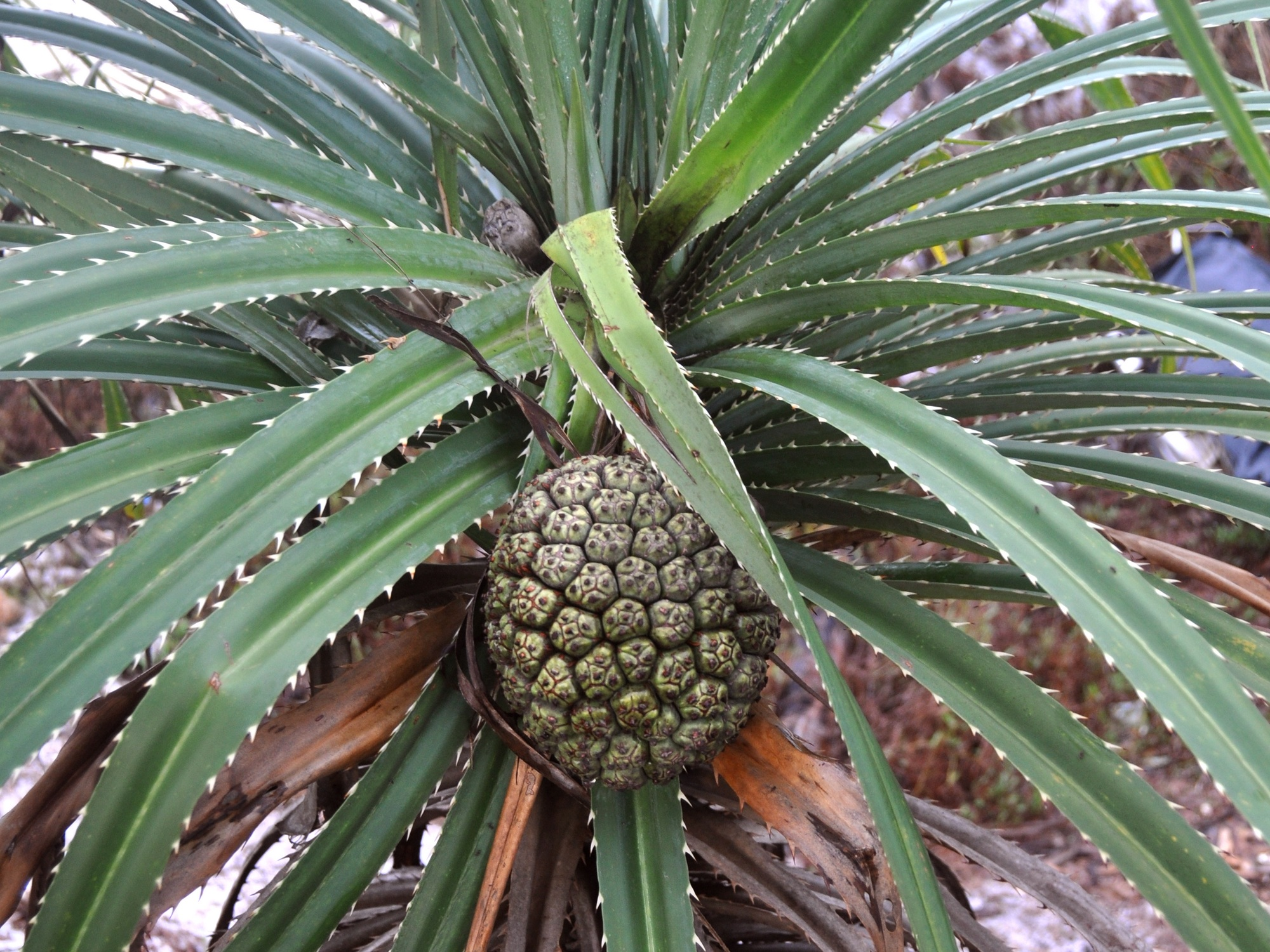 Pandanus odorifer; unriped fruit and leaves. From southern Bangka Island, Indonesia.